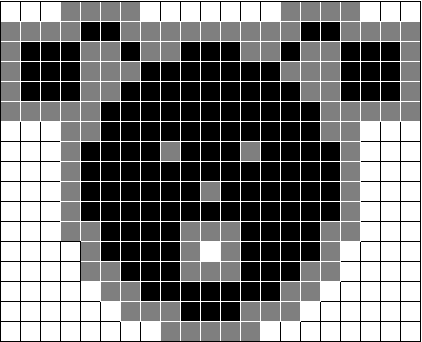 Dilation